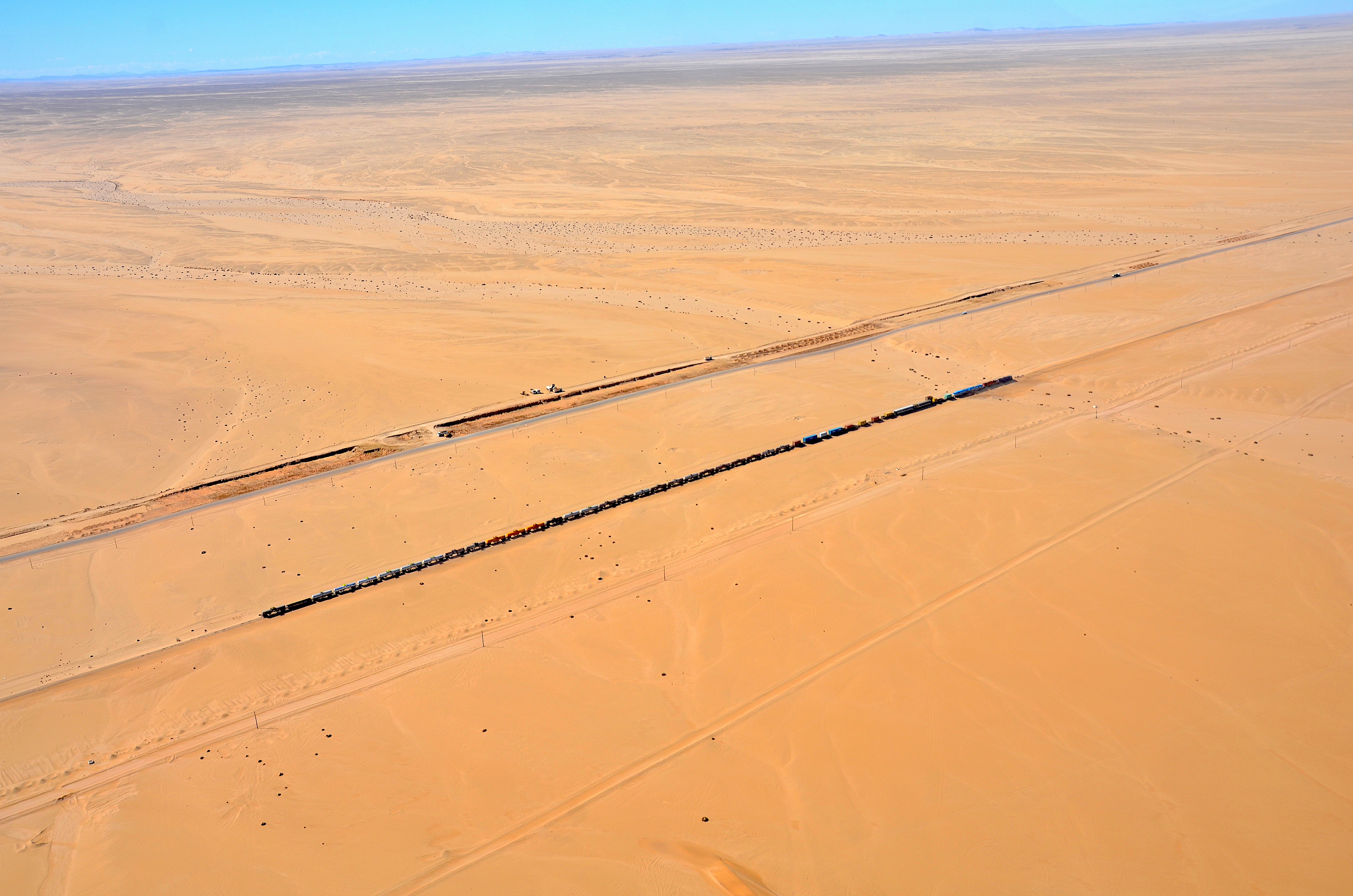 District road D1984 and Railway line near Walvis Bay (2017)